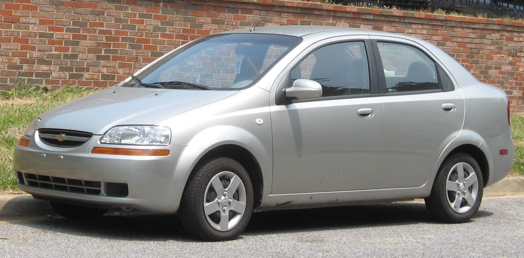 2004-2006 Chevrolet Aveo photographed in USA.